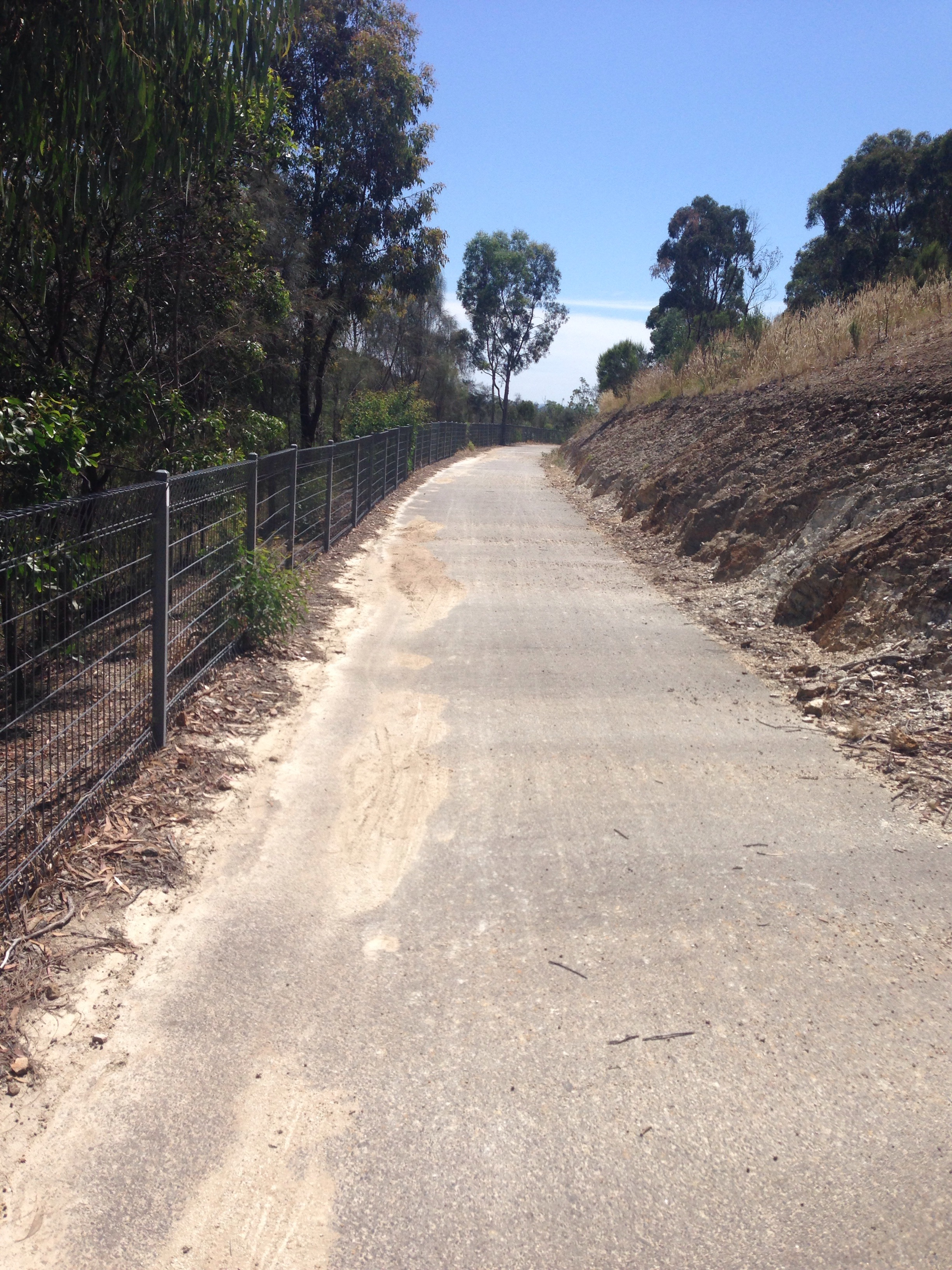 Greensborough Bypass Trail heading north through Watsonia North.